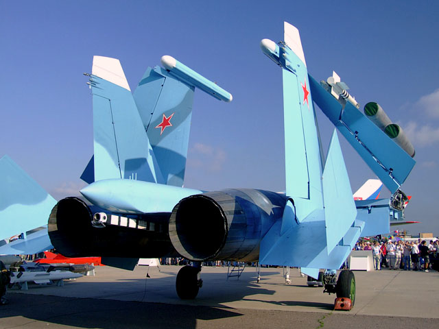 MAKS Airshow-2007. Su-33